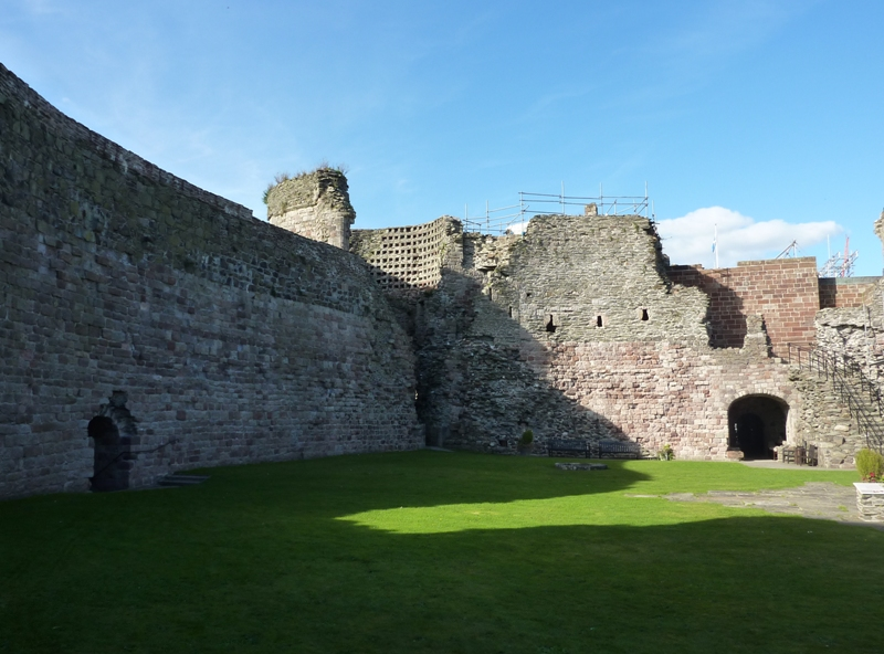 Rothesay Castle, Rothesay, Bute, Scotland. Courtyard with postern gate, pigeon tower and entrance.